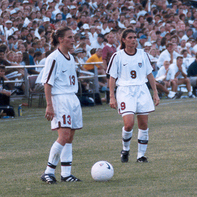 Kristine Lilly (13) and Mia Hamm (9) in St.Louis 1998